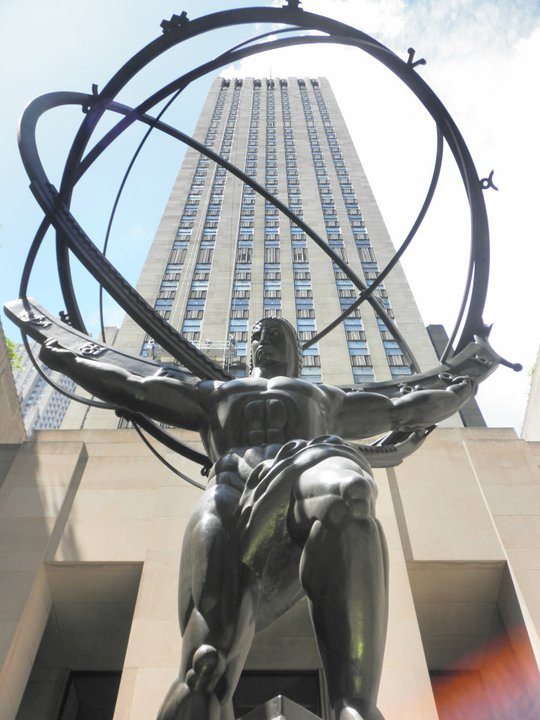 Rockefeller Center